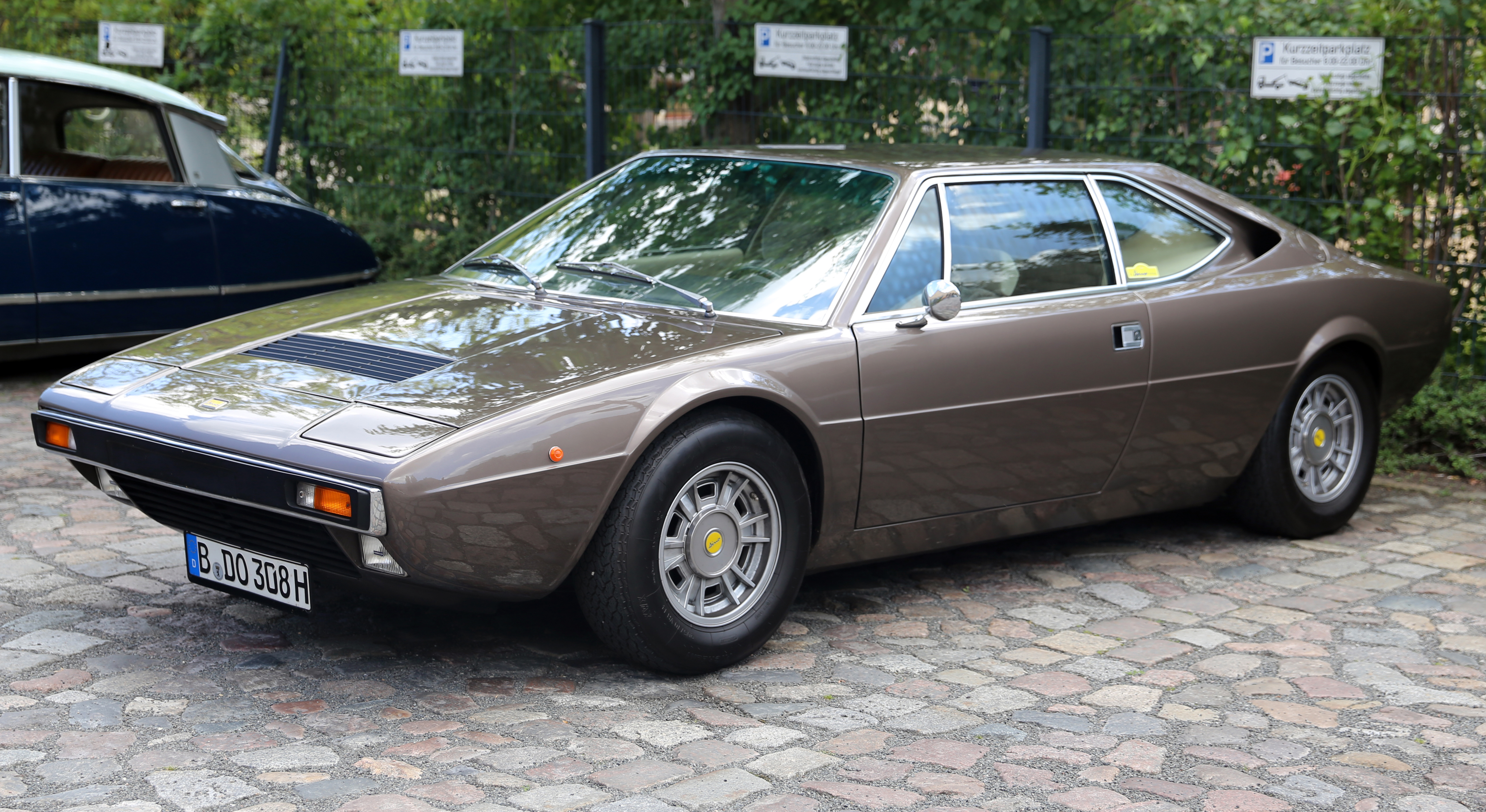 A 1975 Dino 308 GT4 (no Ferrari badges until later, and only dealer-installed at first). The owner of this car is a bit of an expert on the Magneti Marelli "Dinoplex" ignition system and runs a website called .